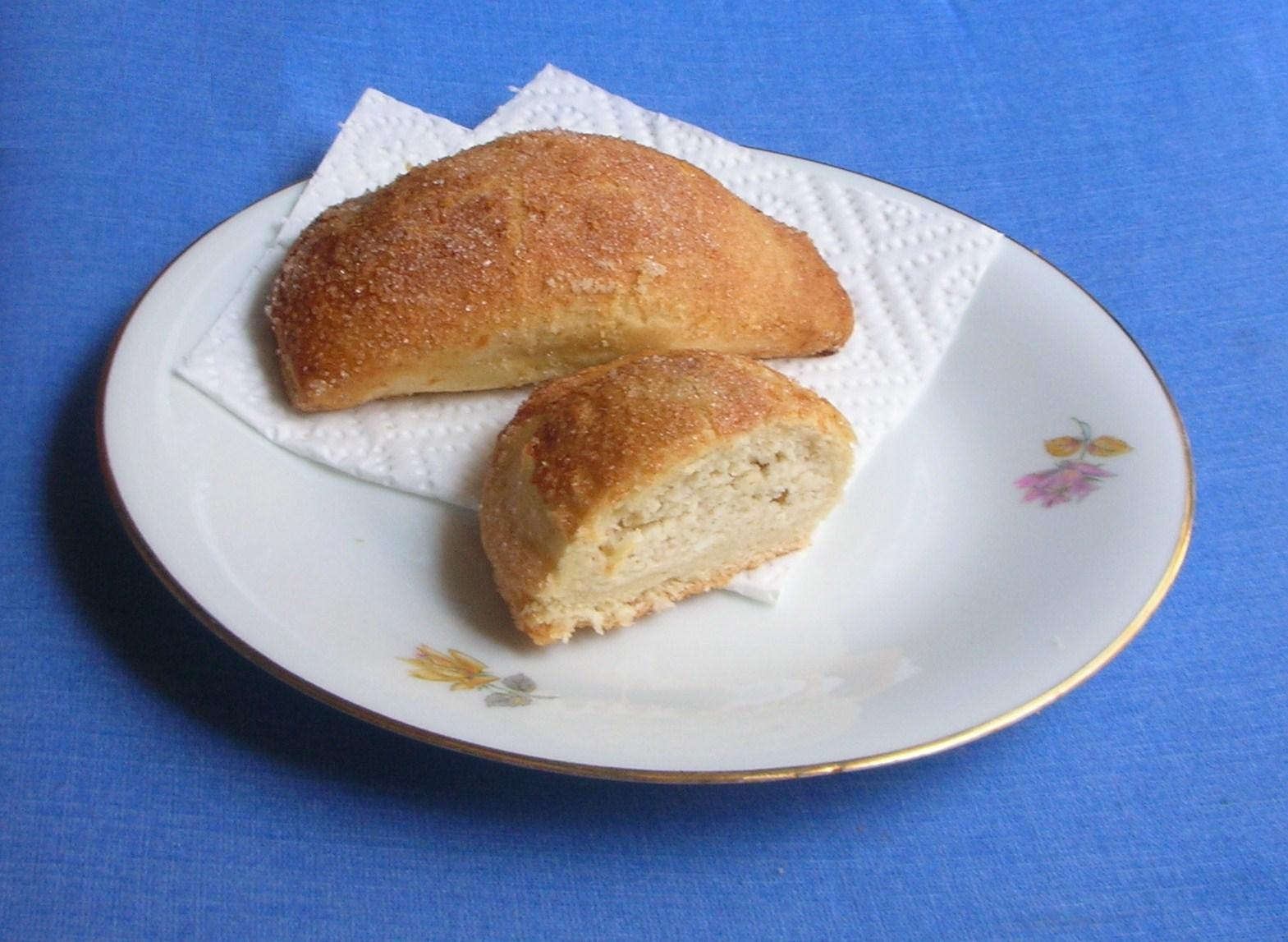 Flaons de Morella; pastry from Morella, Alt Maestrat, filled with local cottage cheese